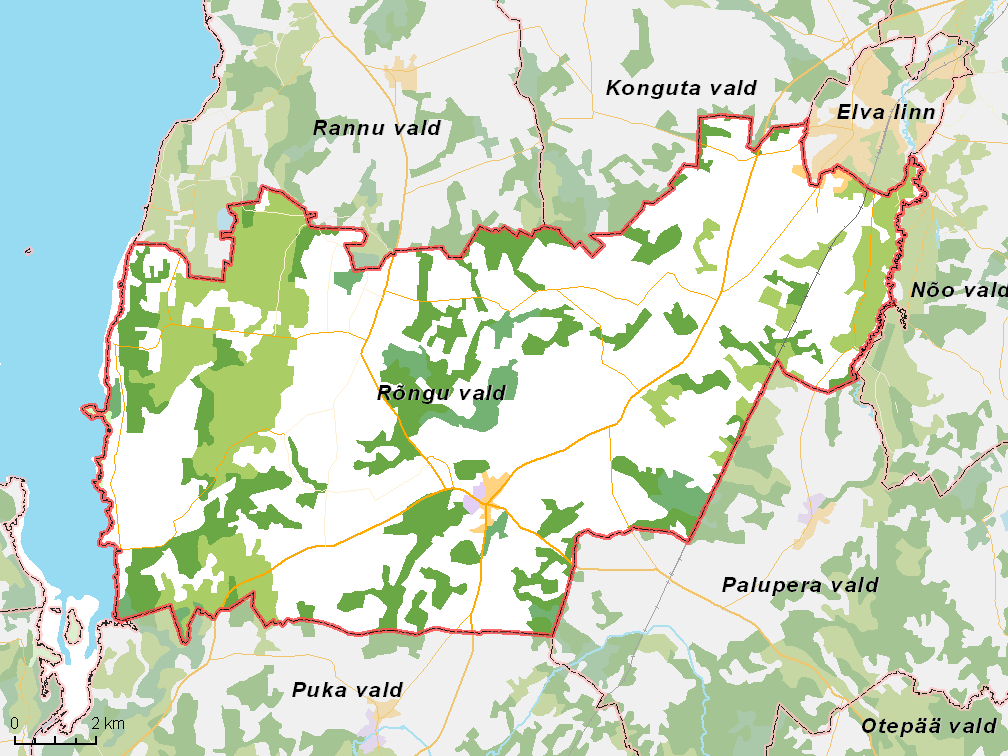 Map of municipality in Estonia